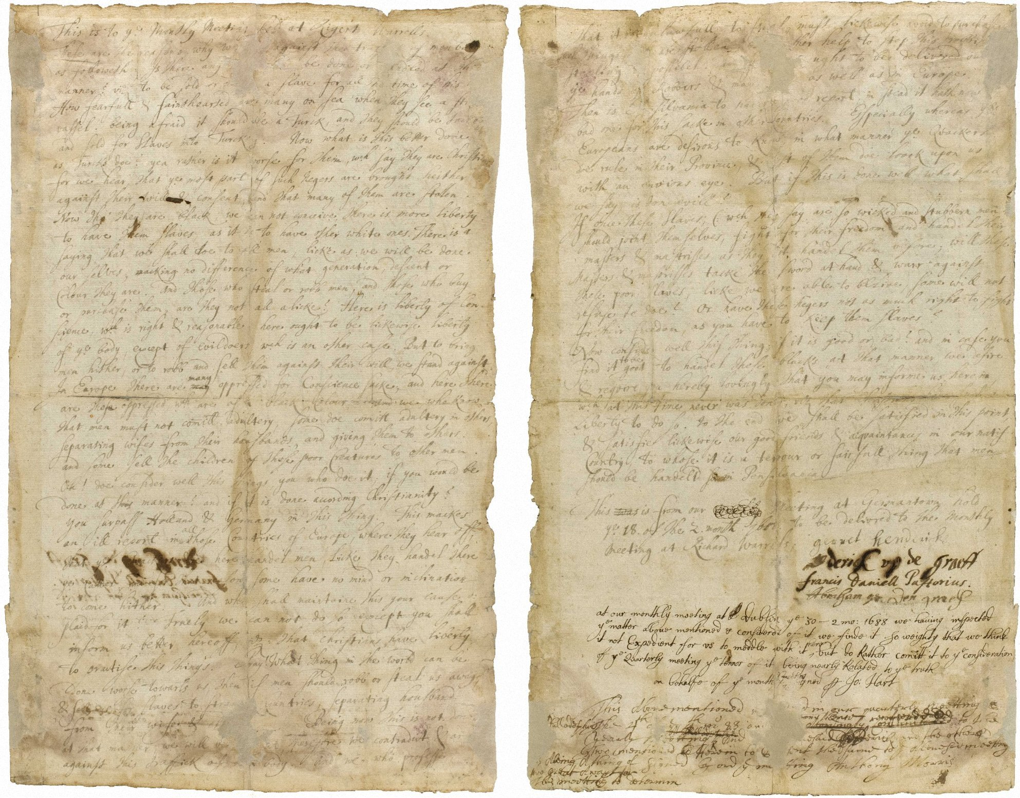 The two sides of the The 1688 Germantown Quaker Petition Against Slavery after conservation in 2007. It was written in iron gall ink and has substantially faded. The document was the first public protest against the institution of slavery, and represents the first written public declaration of universal human rights. The original document is 9" x 14". The Signatories are Francis Daniel Pastorius, Garret Hendericks, Derick op den Graeff and Abraham op den Graeff